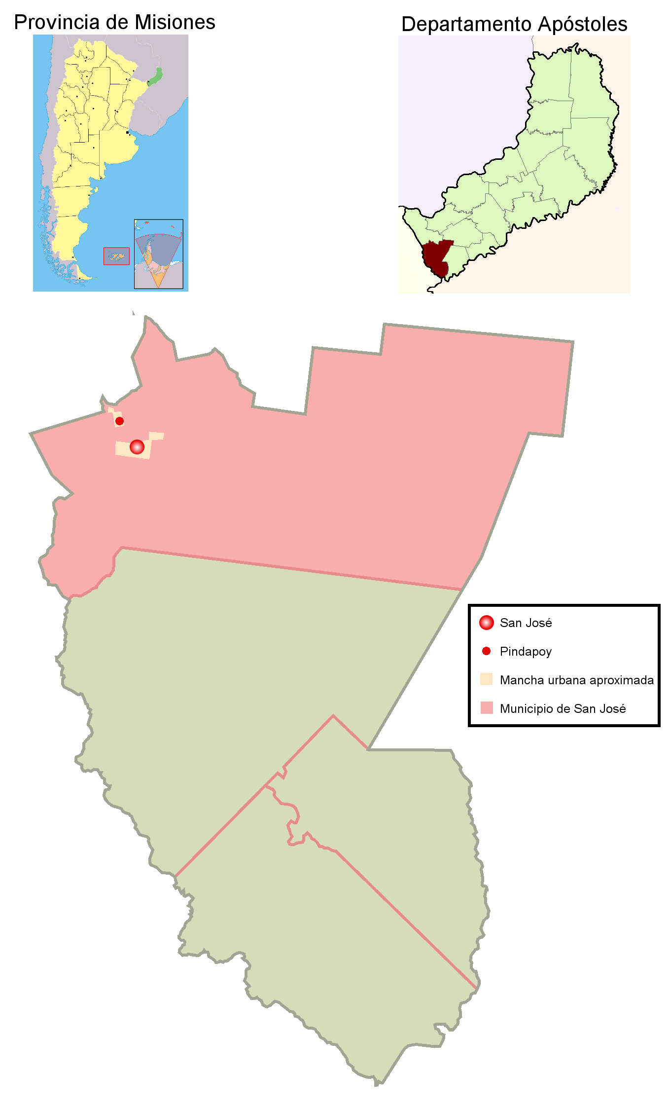 A map showing municipio of San José in Apóstoles departament, Misiones province, Argentina. Also shows San José town location, Pindapoy town location and their urban sector. Created with GIMP.